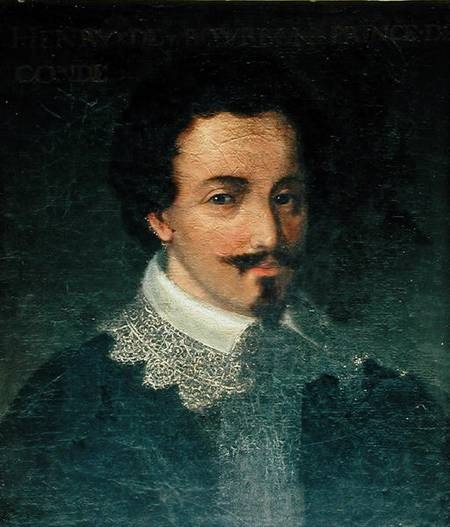 Portrait of Henri of Condé